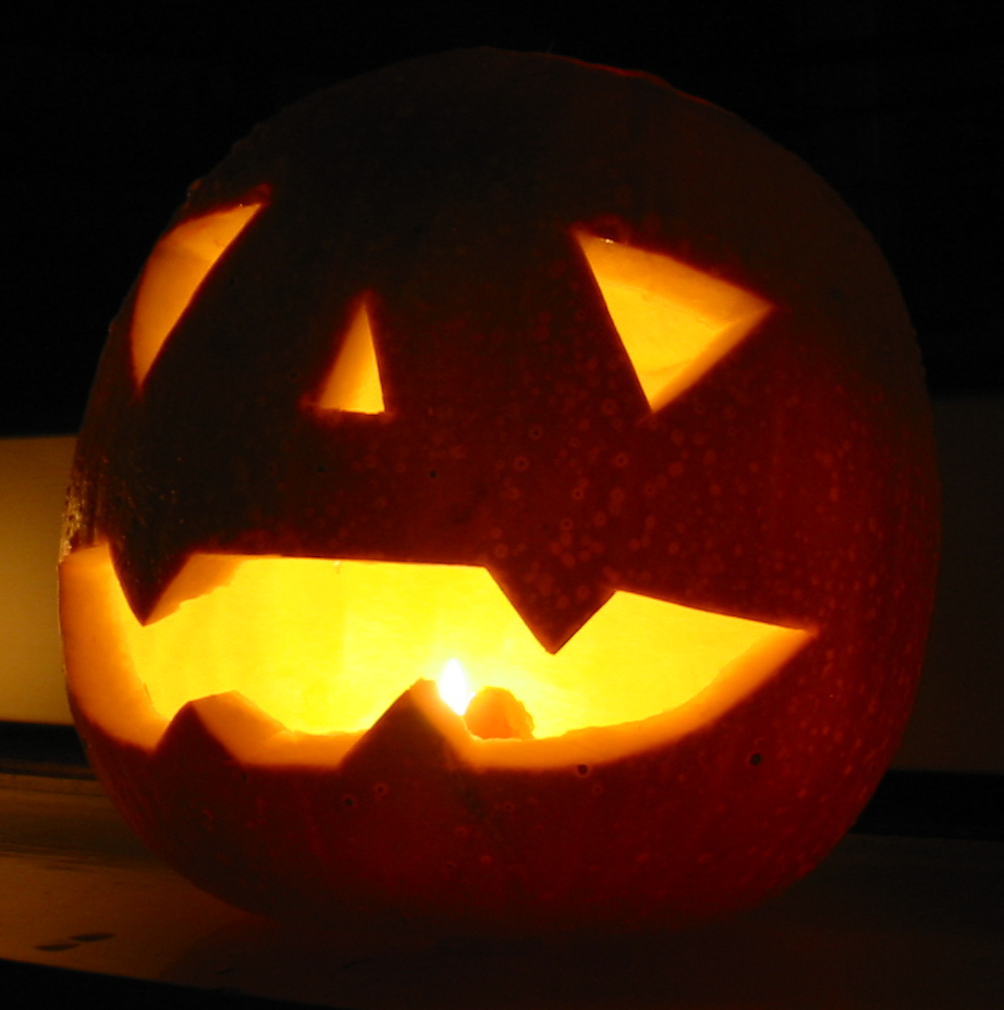 Step-by-step making a Jack-o'-lantern